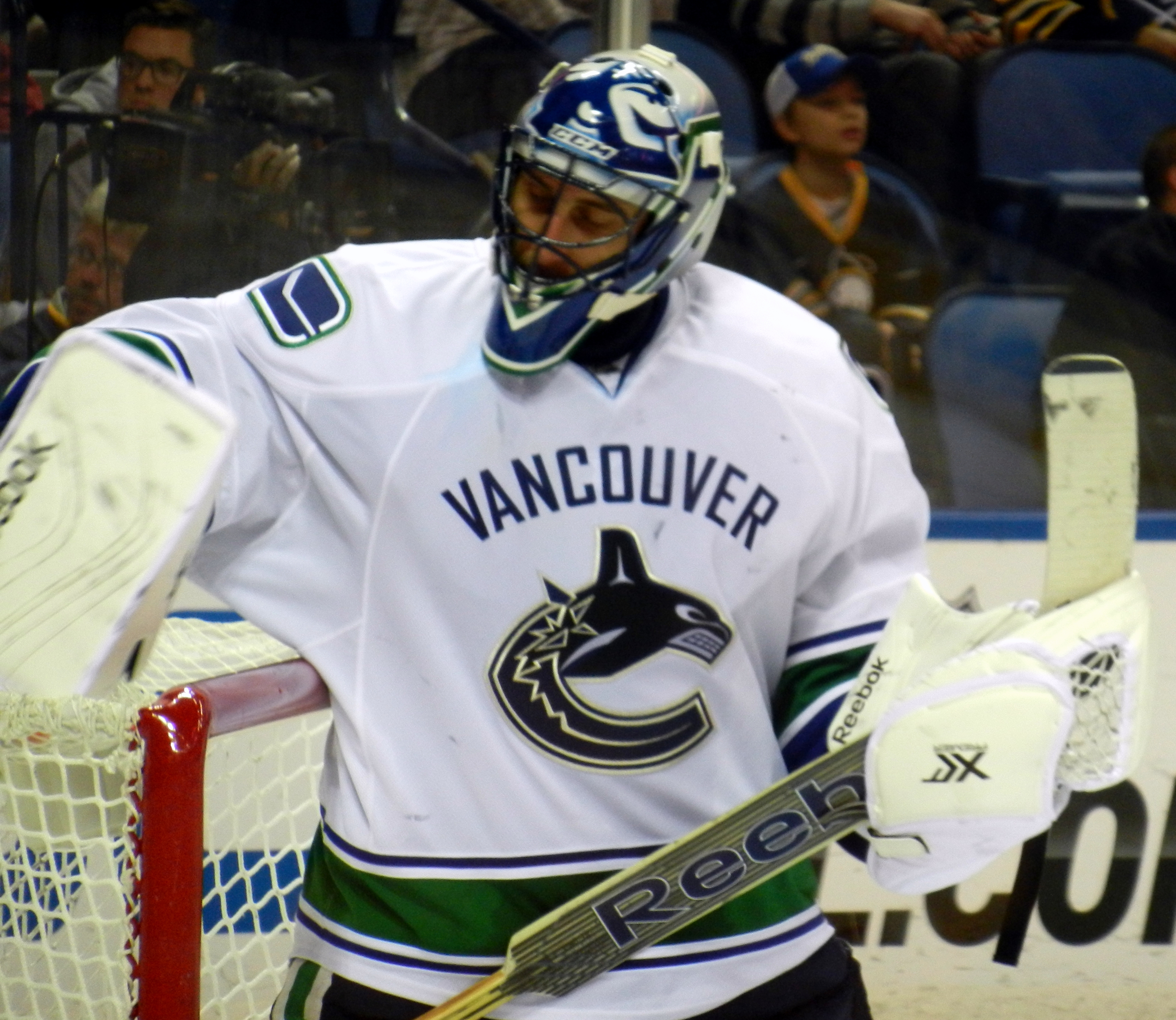 Roberto Luongo playing in a game with the Vancouver Canucks during the 2013-14 NHL season. Luongo recorded his 63rd career shutout in the win over the Buffalo Sabres